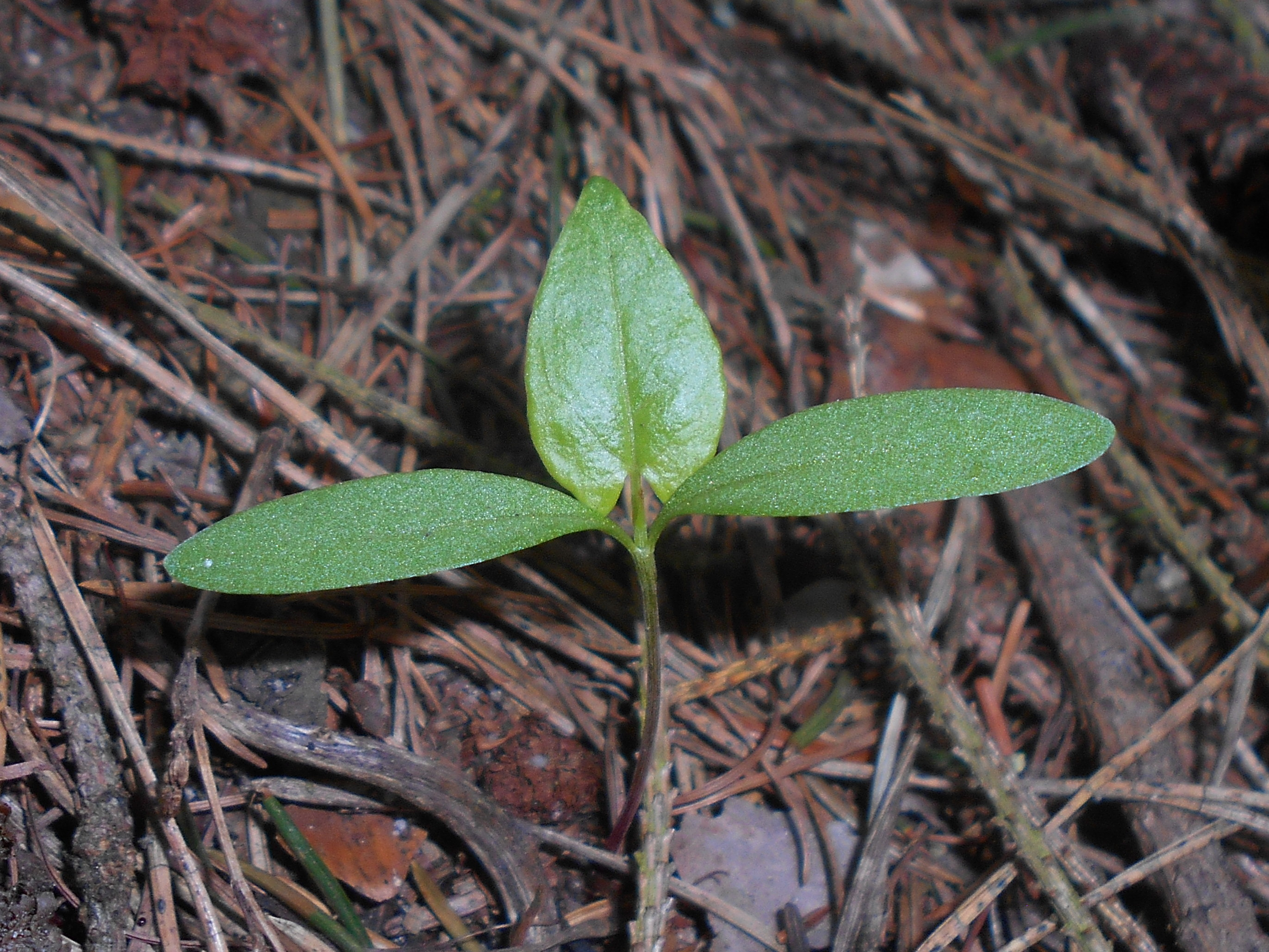 Fallopia convolvulus seedling, Park Leśny Głębokie, West Pomeranian Voivodeship, Poland.